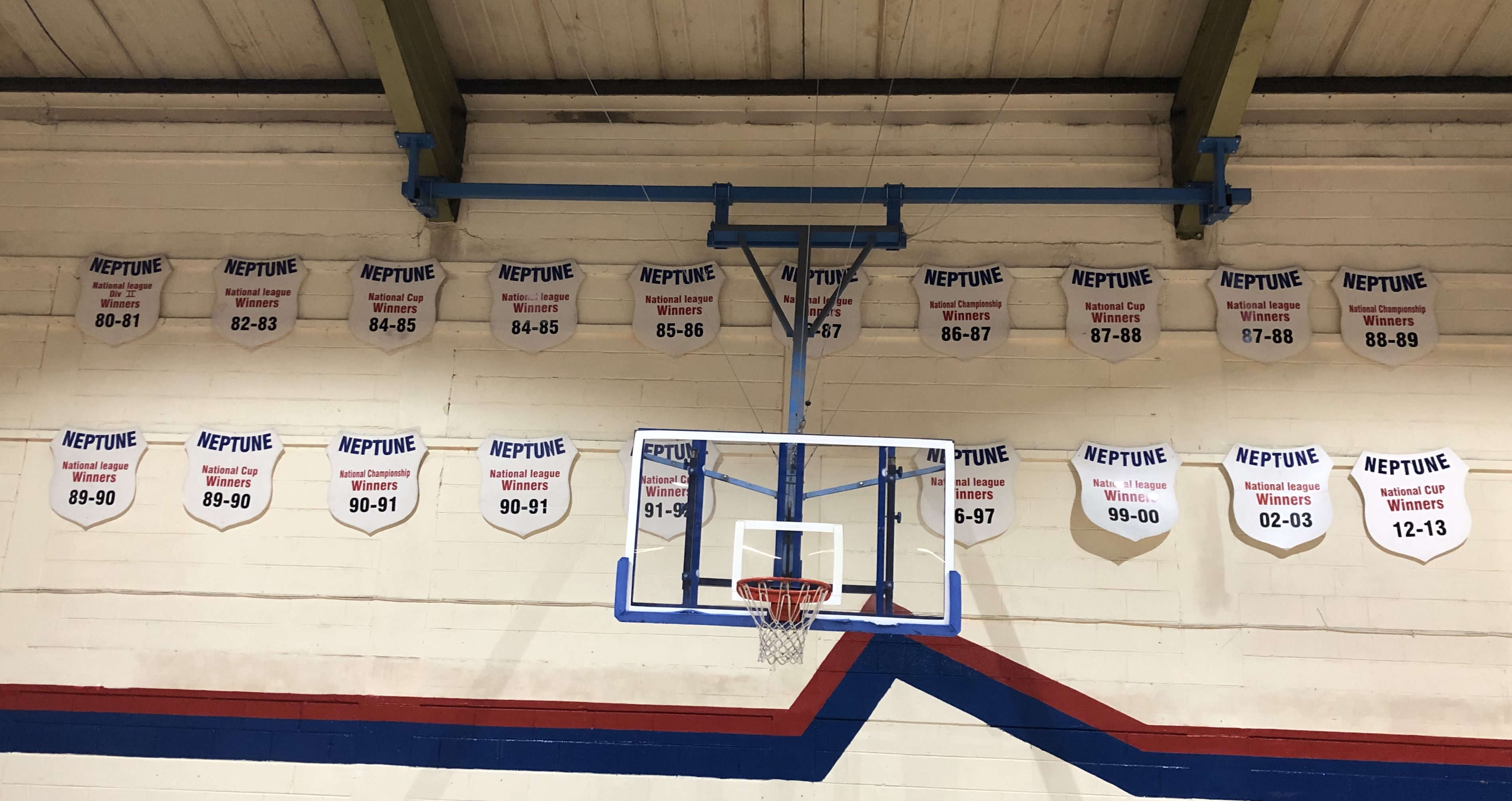 Neptune Stadium, Cork, Ireland. Neptune Basketball Club’s championship banners